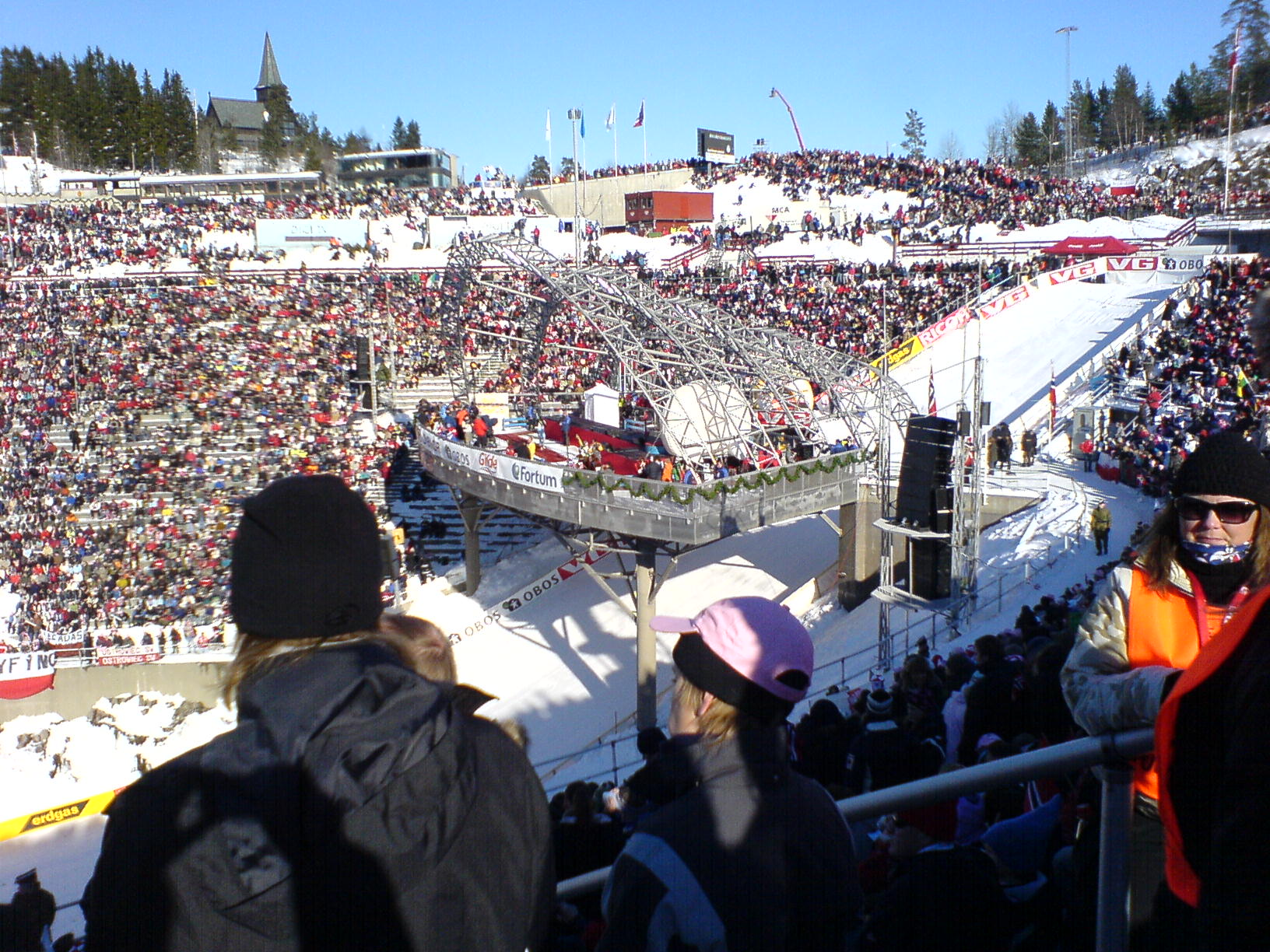 FIS Ski Jumping World Cup 2006/2006 at Holmenkollen in Oslo (Norway) won by Adam Małysz (Poland)